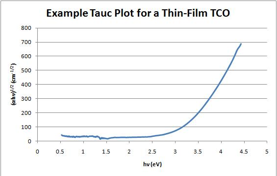 Typical Tauc plot for an amorphous thin-film transparent conducting oxide (TCO). Note the distinct linear region, which can be extrapolated to the x-axis to determine the material's optical band gap.